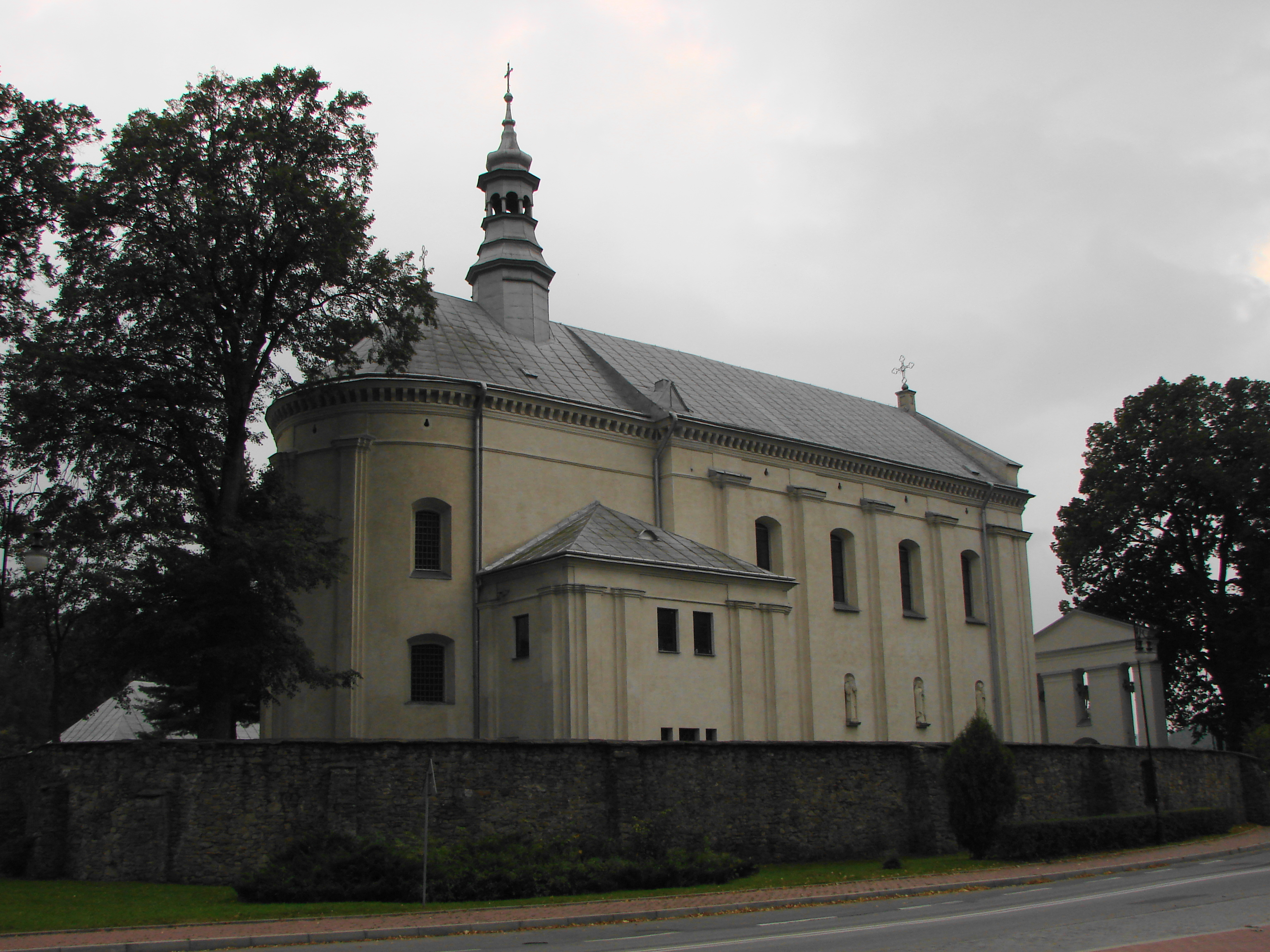 Saint Joseph's church in Muszyna, Poland